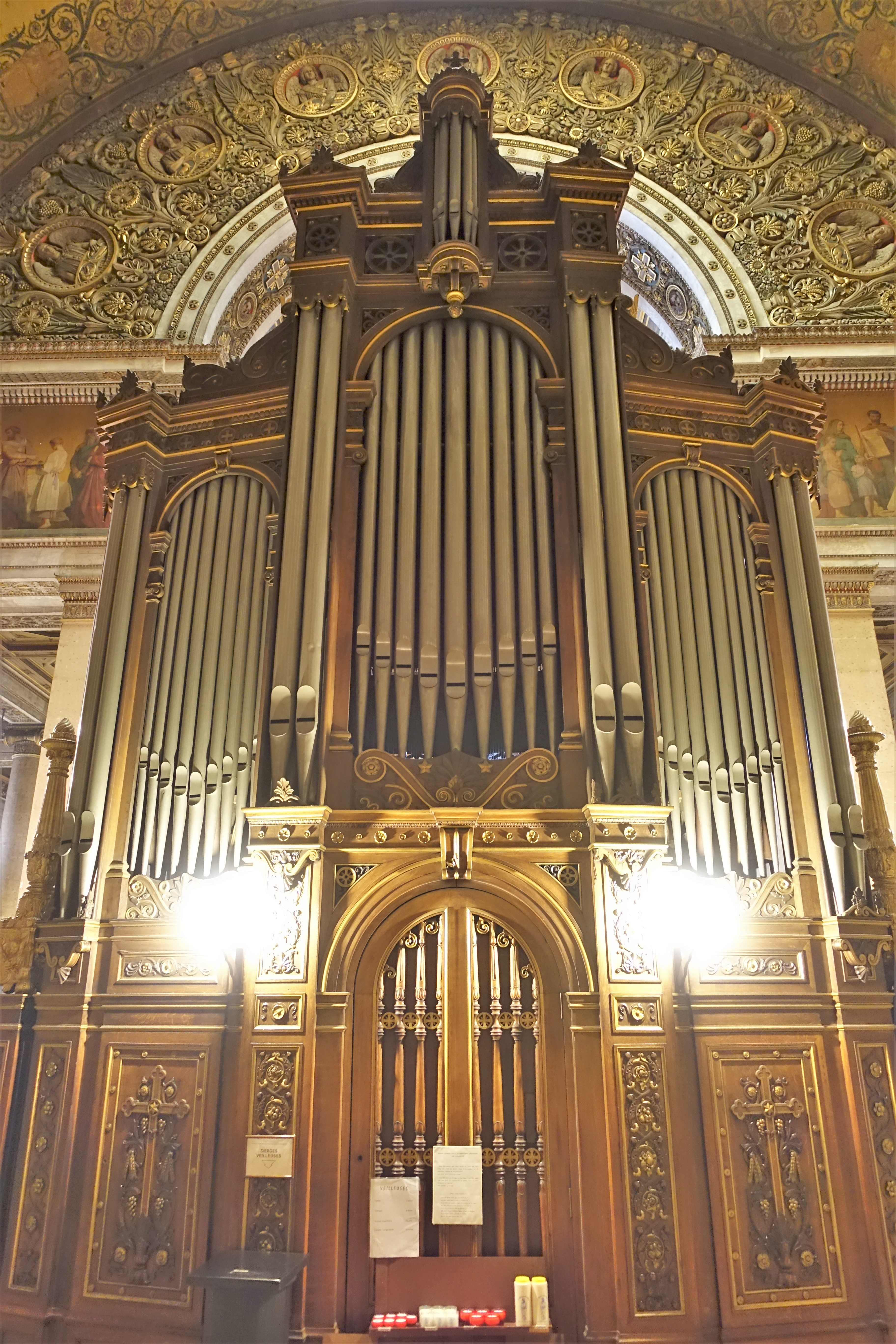 The Church of Saint-Vincent-de-Paul, a church in the 10th arrondissement of Paris dedicated to Saint Vincent de Paul. It gives its name to the Quartier Saint-Vincent-de-Paul around it.